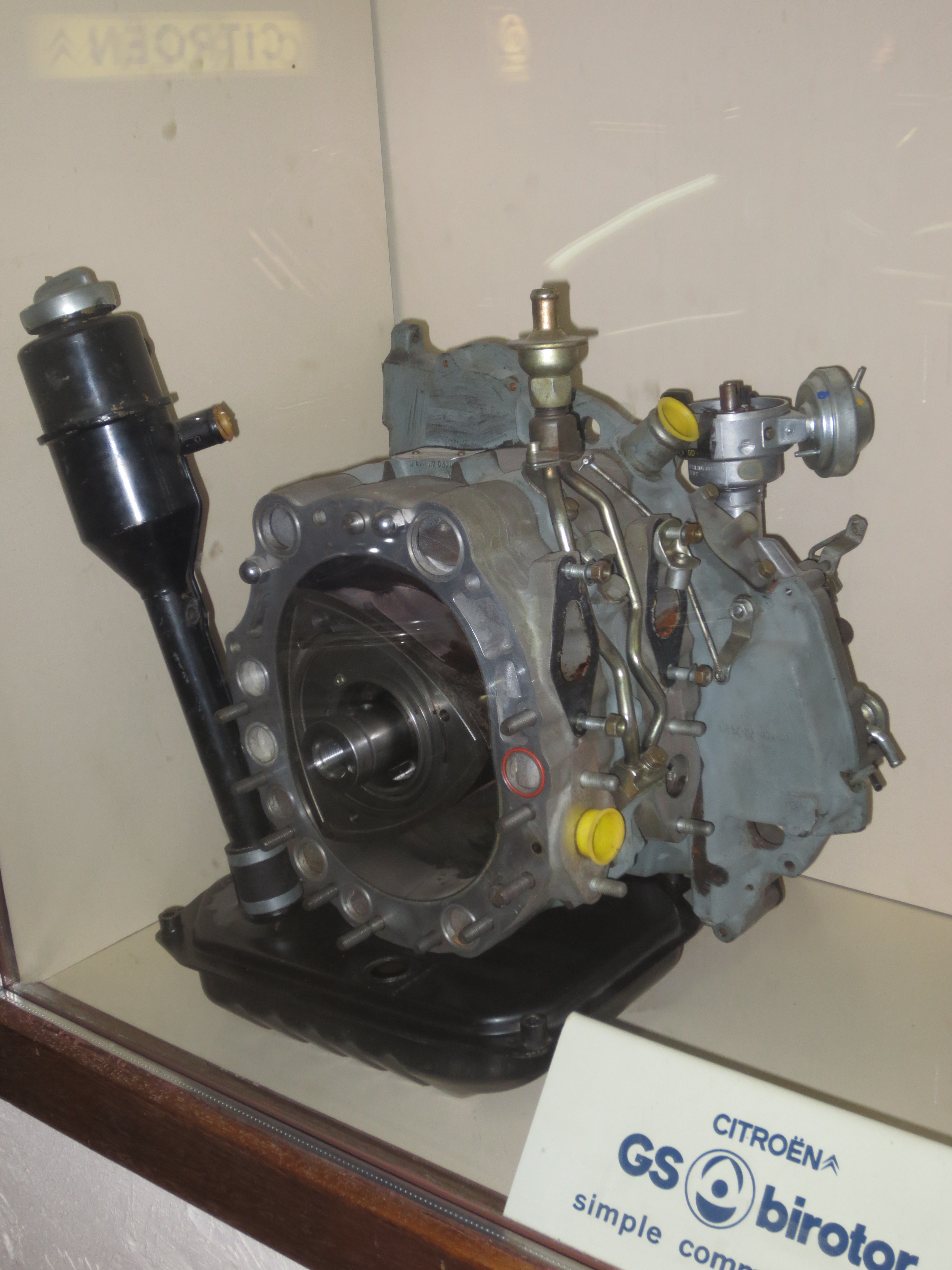 Subject: A Wankel birotor engine, the same of the ones which were mounted under the bonnet of the Citroën GS Birotor Author: Luc106 Date:October 6th, 2014 Place/Country: Musée Citroën, Castellane (France) I release all rights in the public domain. Licensing